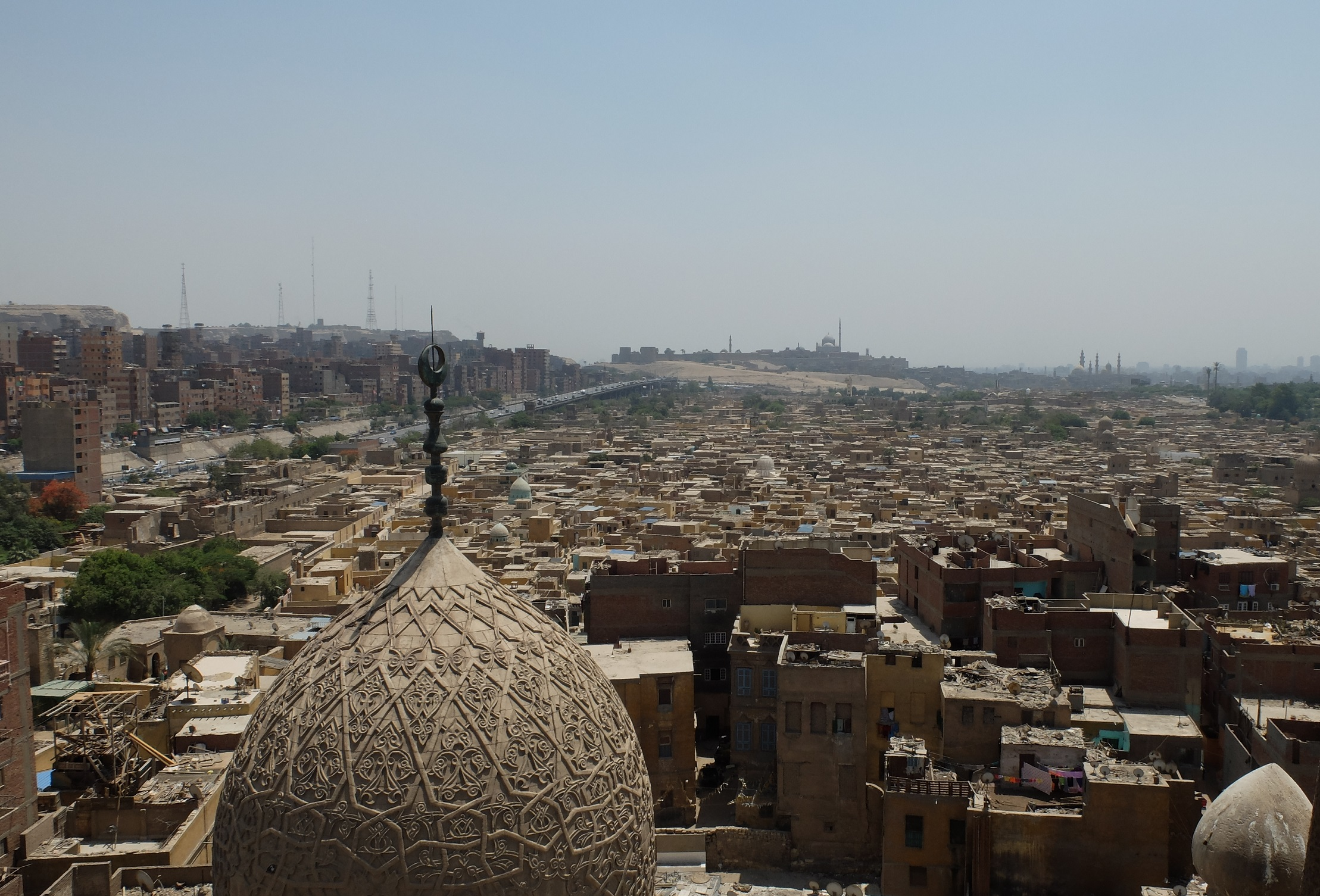 A view from the minaret of Sultan Qaitbay's mosque and mausoleum, overlooking the Northern Cemetery and Cairo's City of the Dead, with the Cairo Citadel in the far distance. The neighbourhood of Manshiyet al-Nasr is on the left. The dome in the bottom foreground is that of the mausoleum of Sultan Qaitbay.